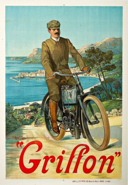 Advertising poster of bicycles Griffon.